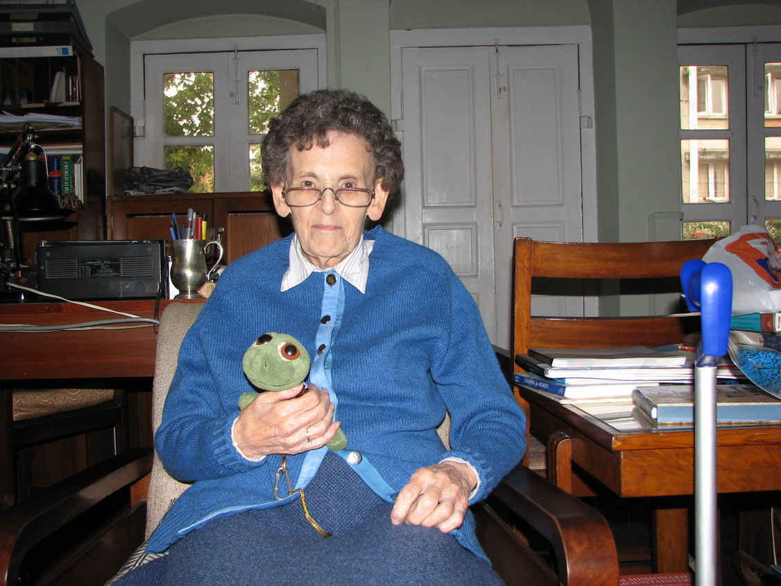 Photo by Parvaneh Kazemi Iranian Climber after climbing Ama Dablam Date of Photo:15 November 2011, Kathmandu, Nepal.